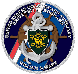 The badge of USCG Auxiliary University Programs unit at the College of William and Mary.